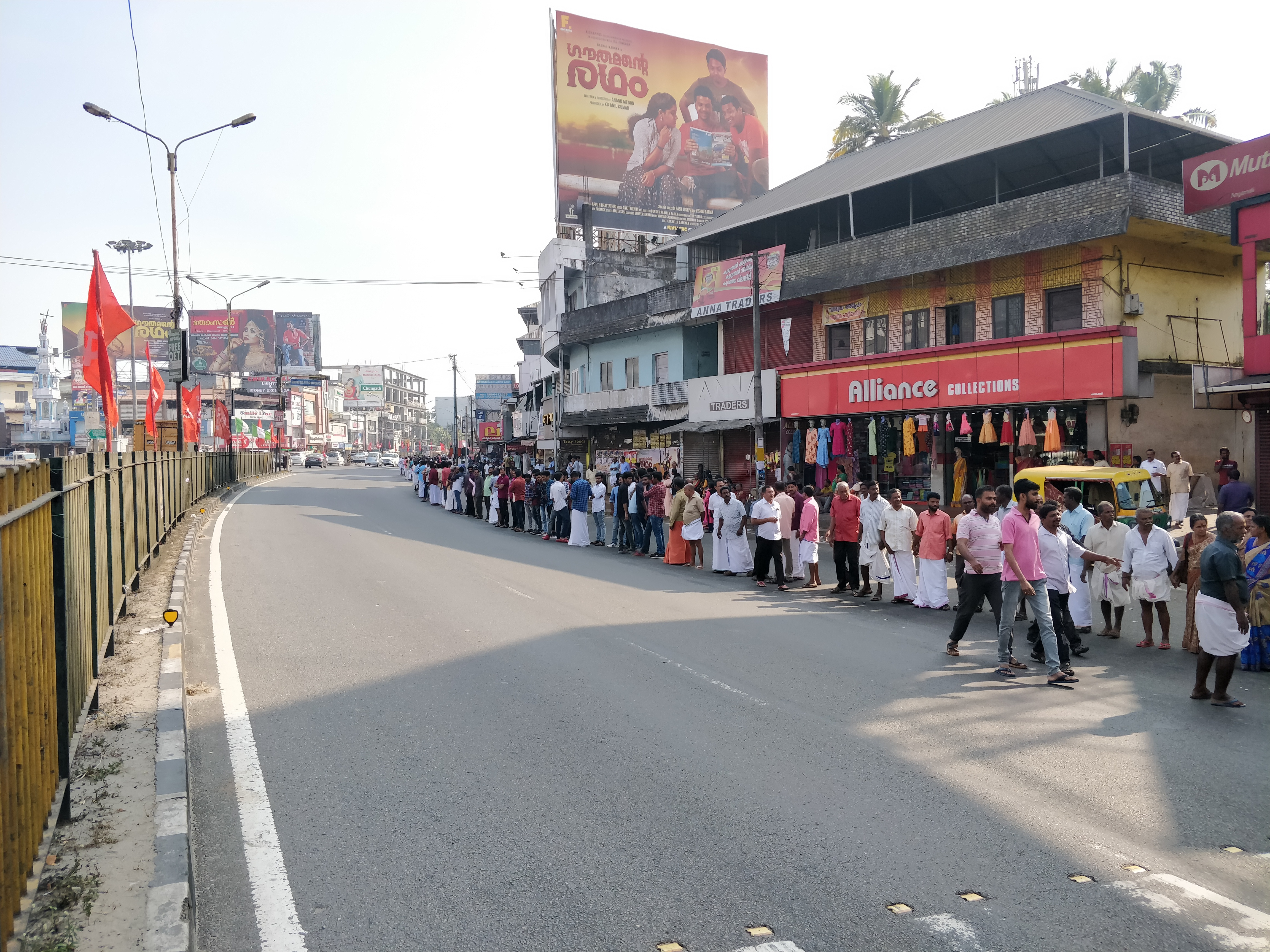 Manushya maha Srinkala conducted againts CAA at kerala, January 2020